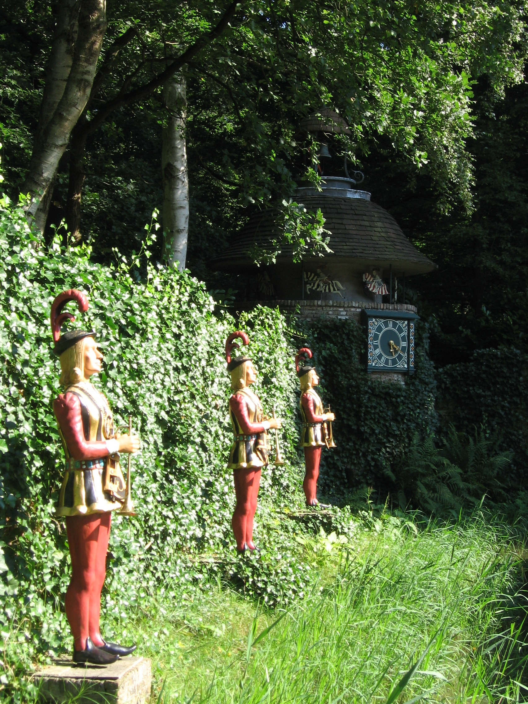 The magic clock, one of the first 10 fairy tales in the Efteling